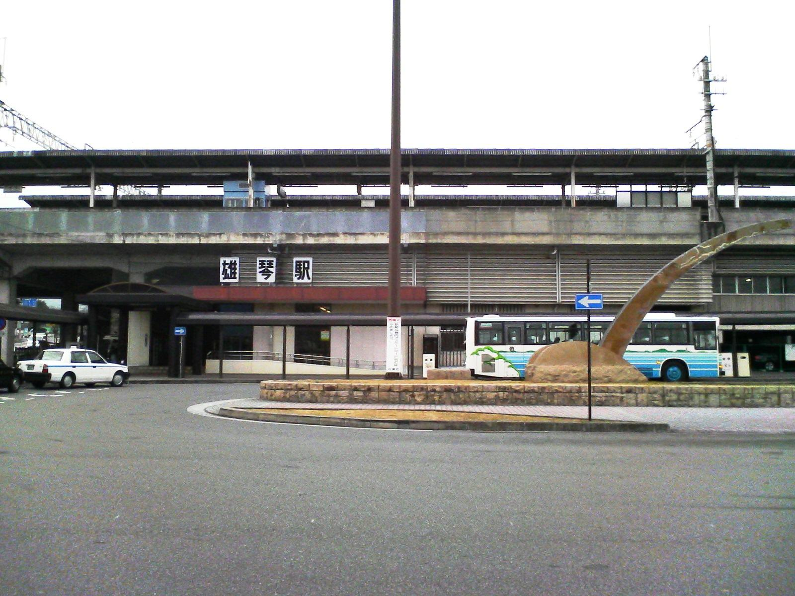 JR Ogoto Station